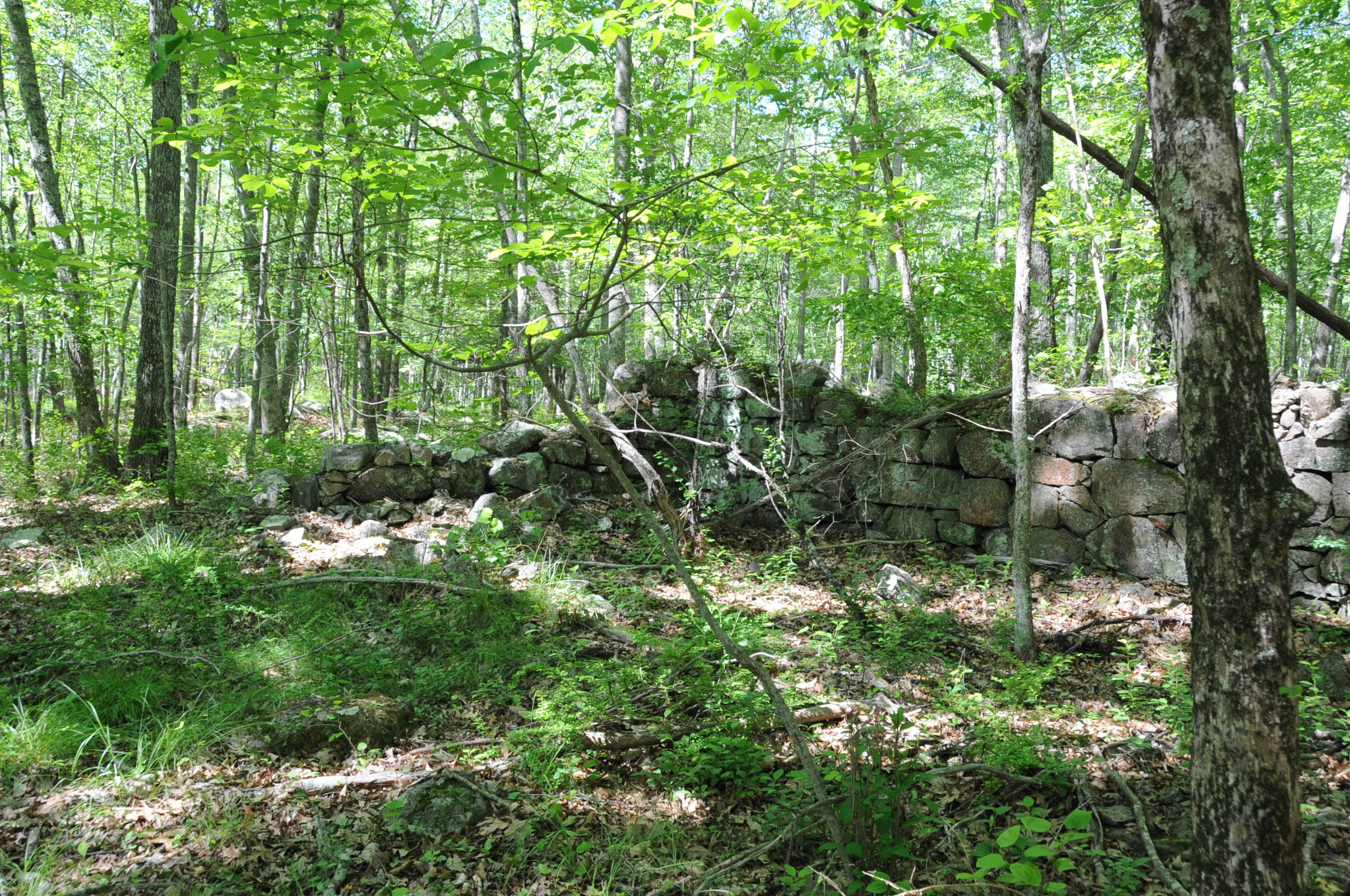 LOCATED ALONG BEAVER RIVER WERE GRIST MILLS AND WOOL CARDING MILL.IN THE EARLY 1800'S BY THE END OF THE 19TH CENTURY ALL ACTIVITY HAD CEASED AND ONLY RUIN S OF MILLS AND HOUSES REMAIN